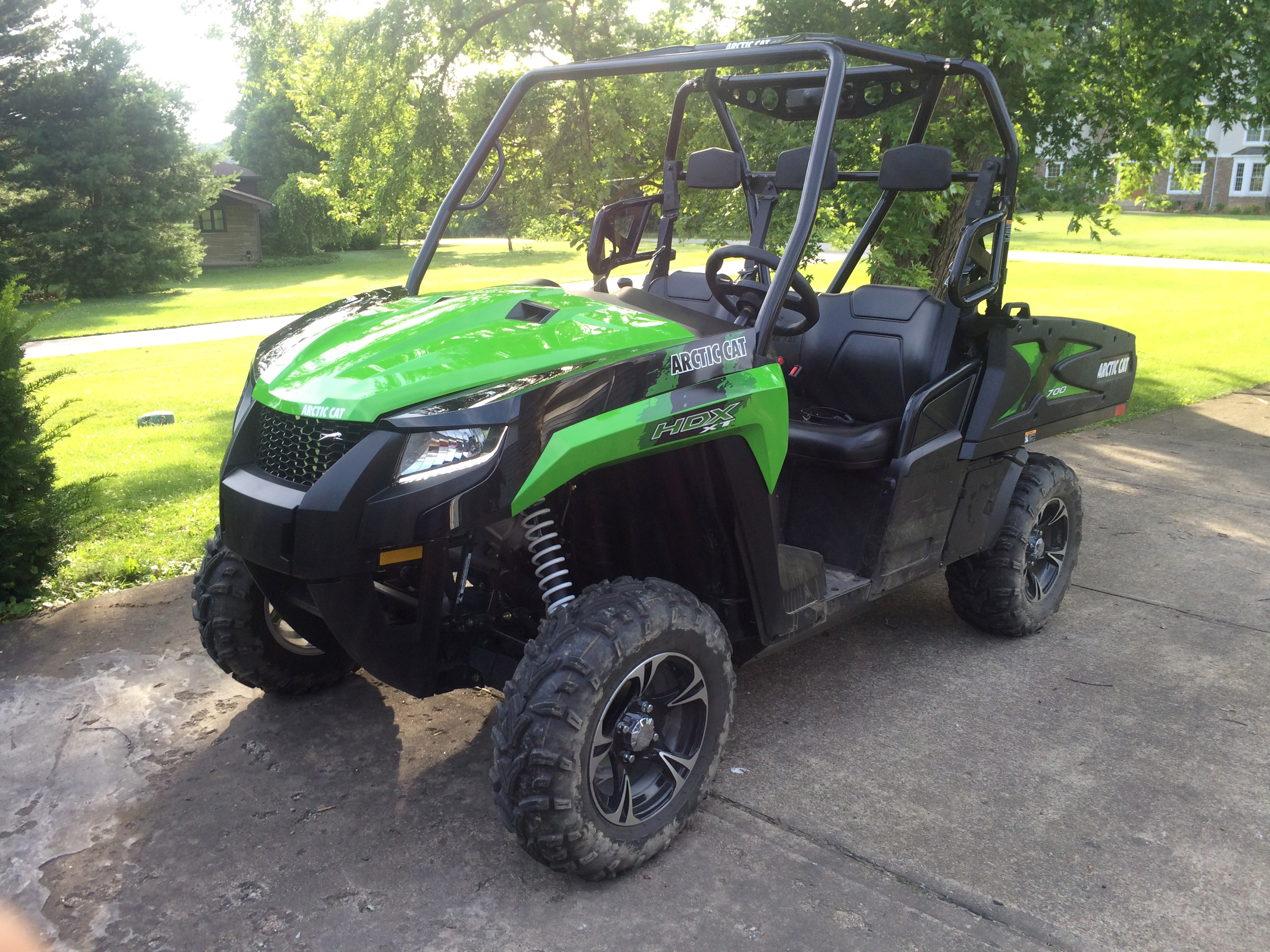 2016 Arctic Cat 700 Prowler HDX XT EPS in Team Arctic Cat Green